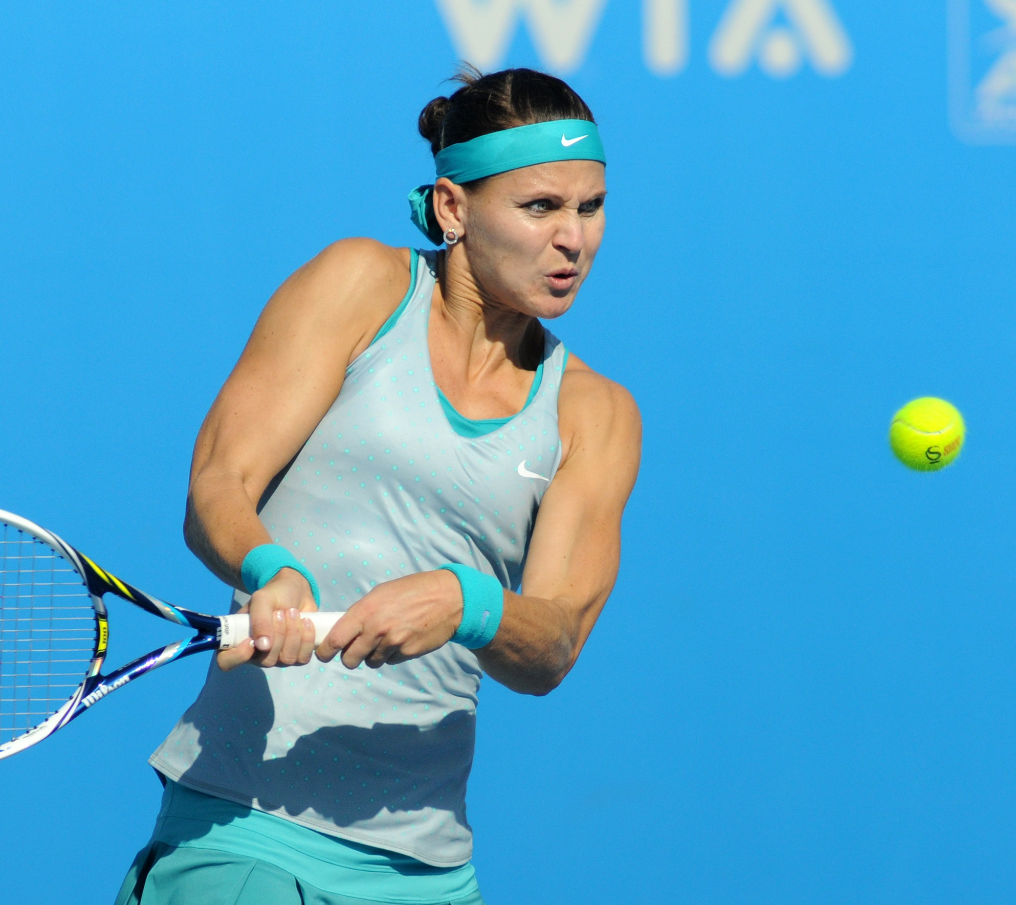 Lucie Šafářová at the 2014 China Open